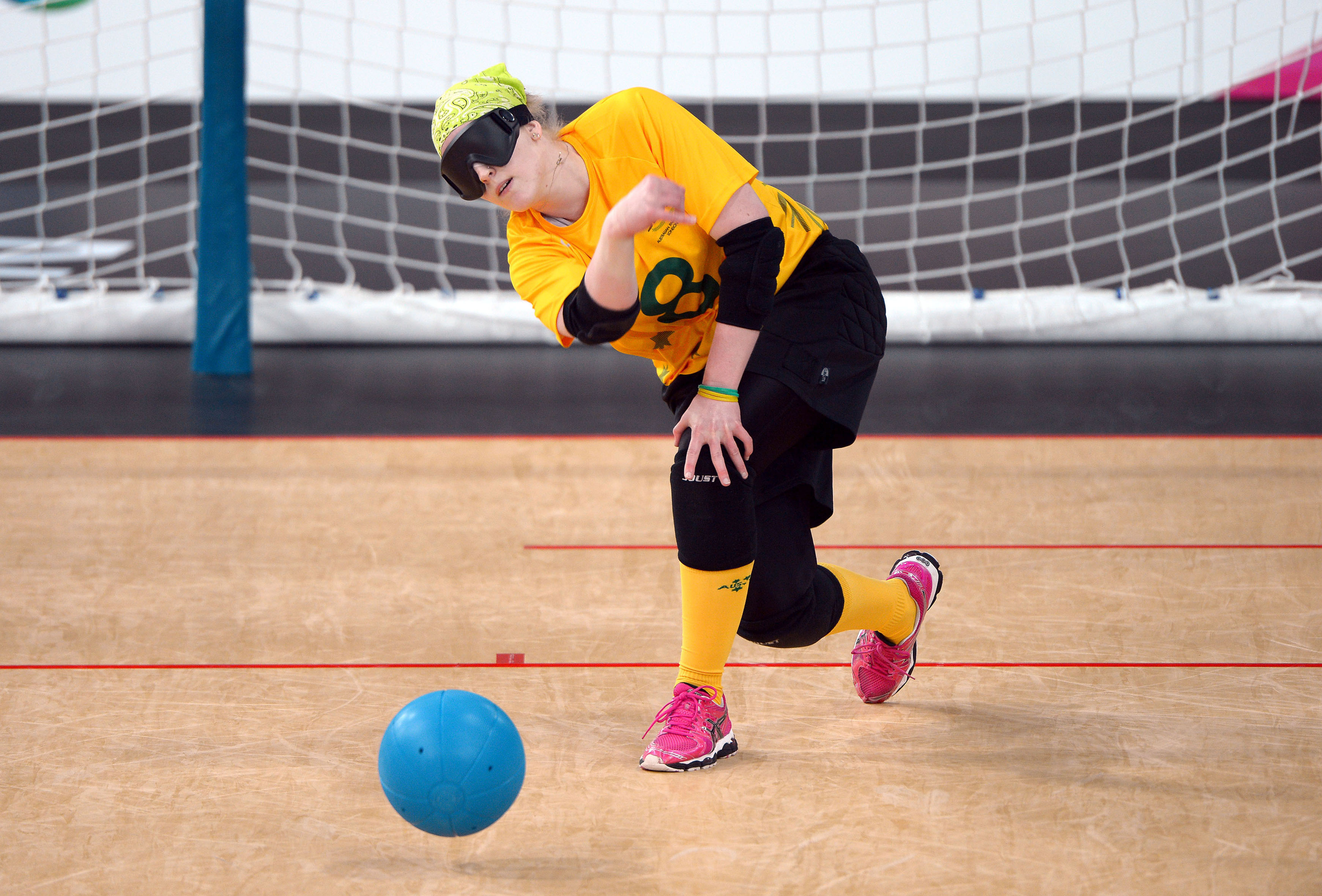 Photograph of Australian Paralympic team member Meica Christensen at the 2012 Summer Paralympic Games in London